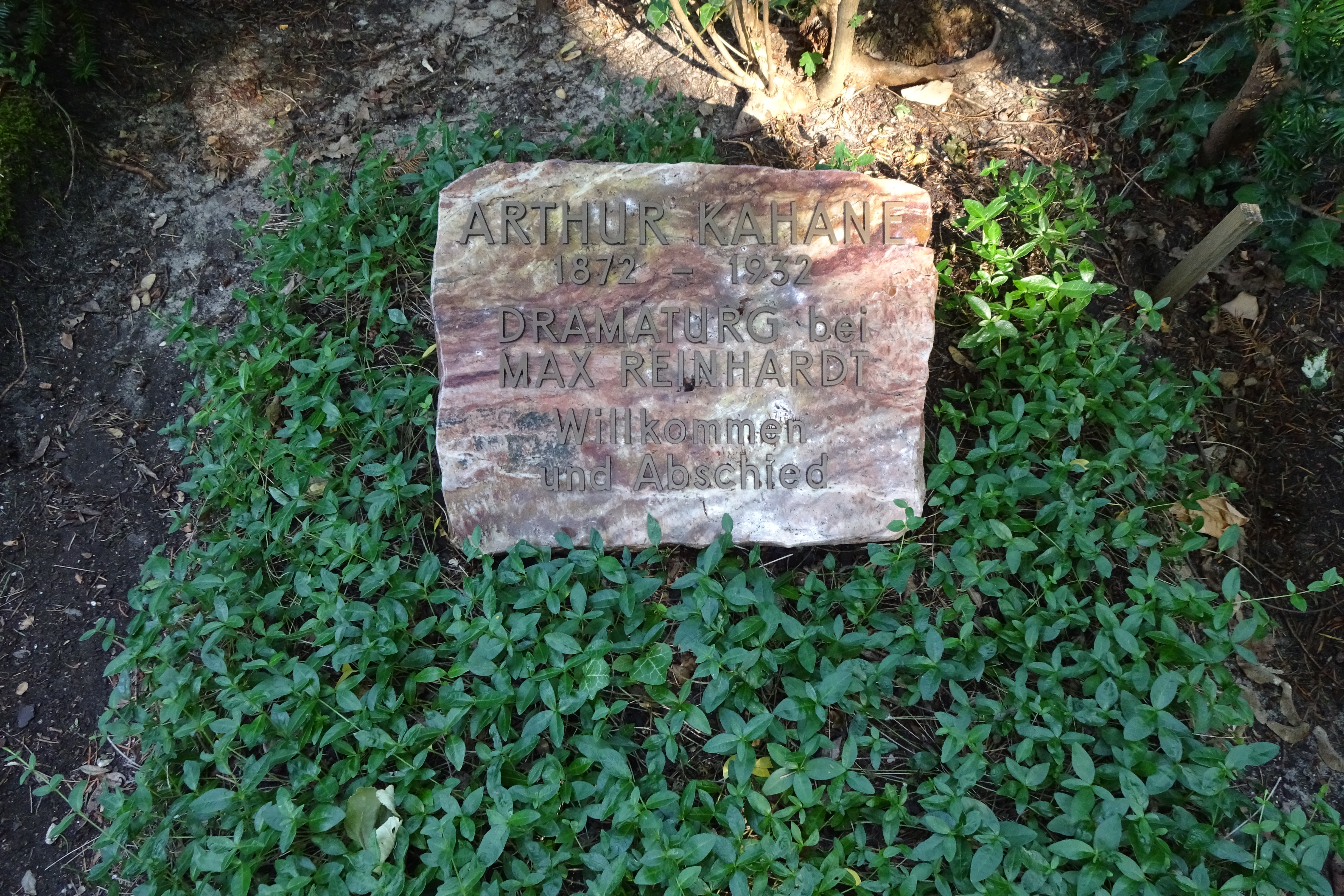 Grave of writer and dramaturg Arthur Kahane in Friedhof Heerstraße in Berlin-Westend